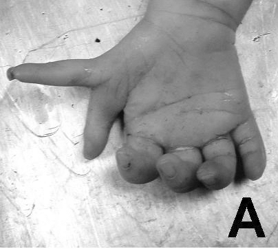 Preaxial polydactyly of the right hand.